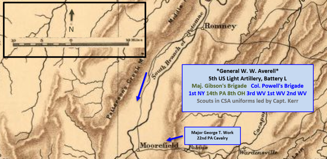 This map shows the approach taken by Union General William W. Averell to Moorefield where the Battle of Moorefield took place (slightly north of) on August 7, 1864.